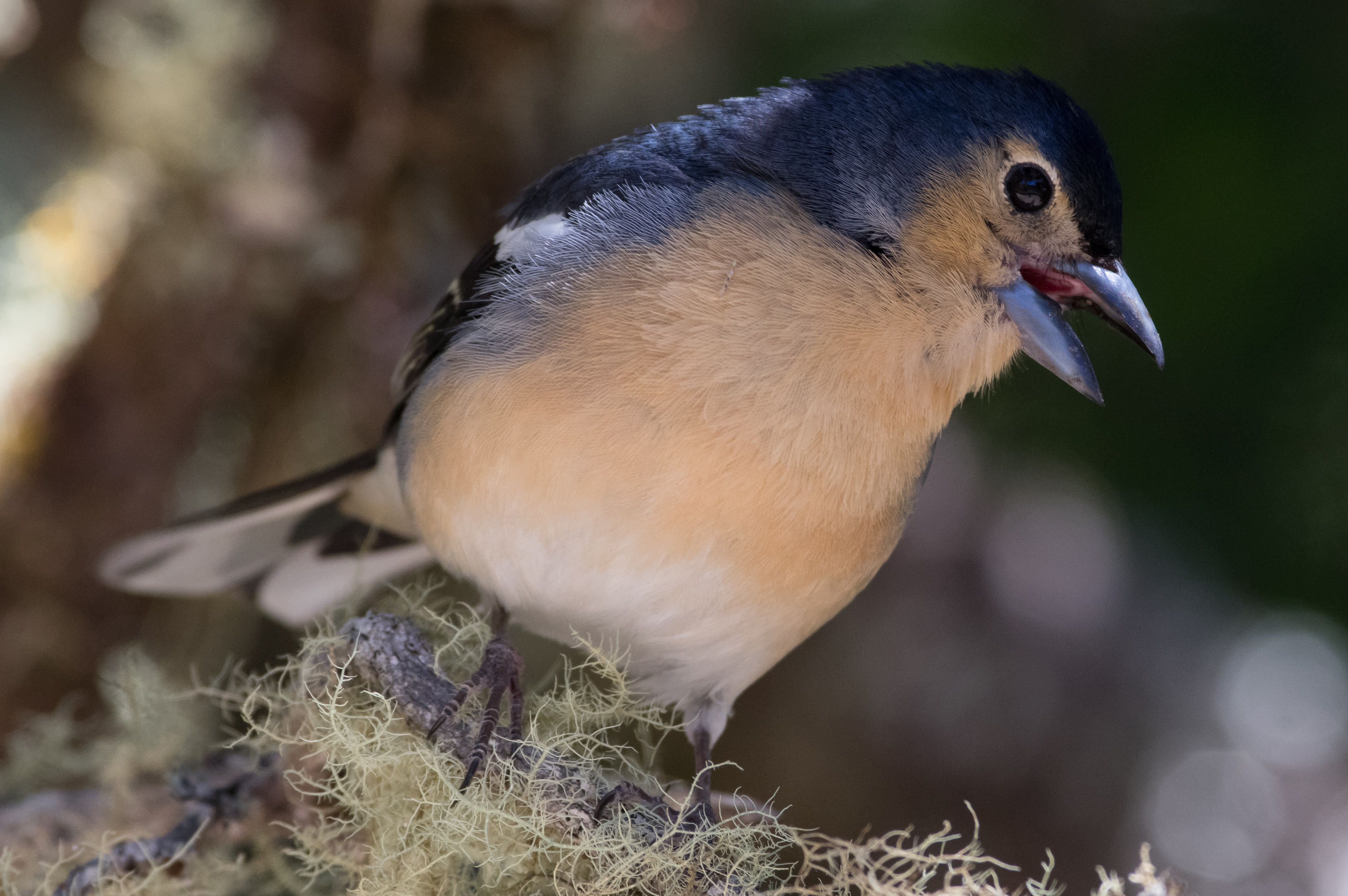 Chaffinch of the subspecies Fringilla coelebs canariensis, La Gomera